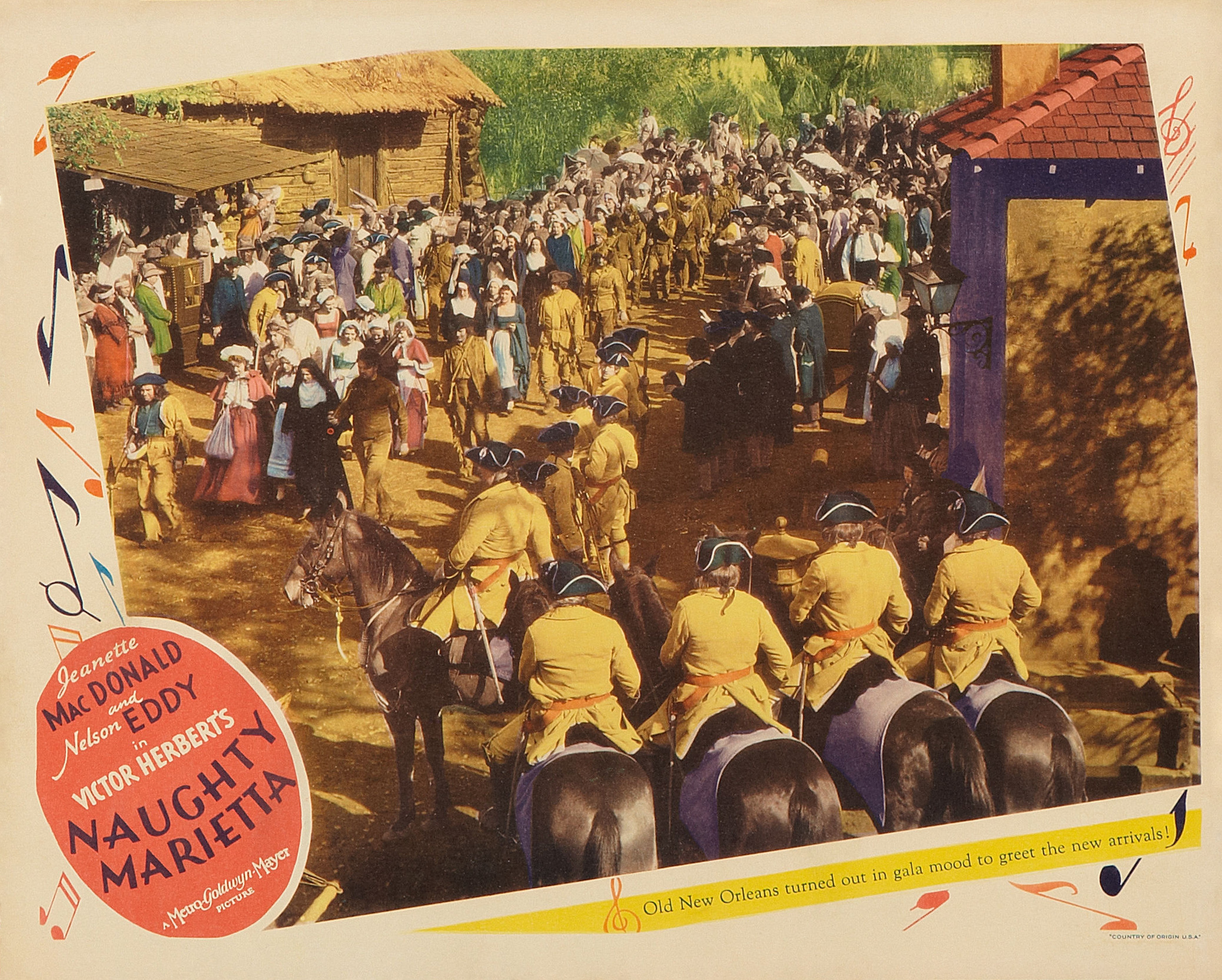 Lobby card for the 1935 MGM film Naughty Marietta